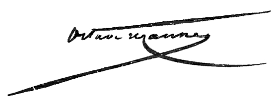 Signature of French writer Octave Uzanne (1852-1931)